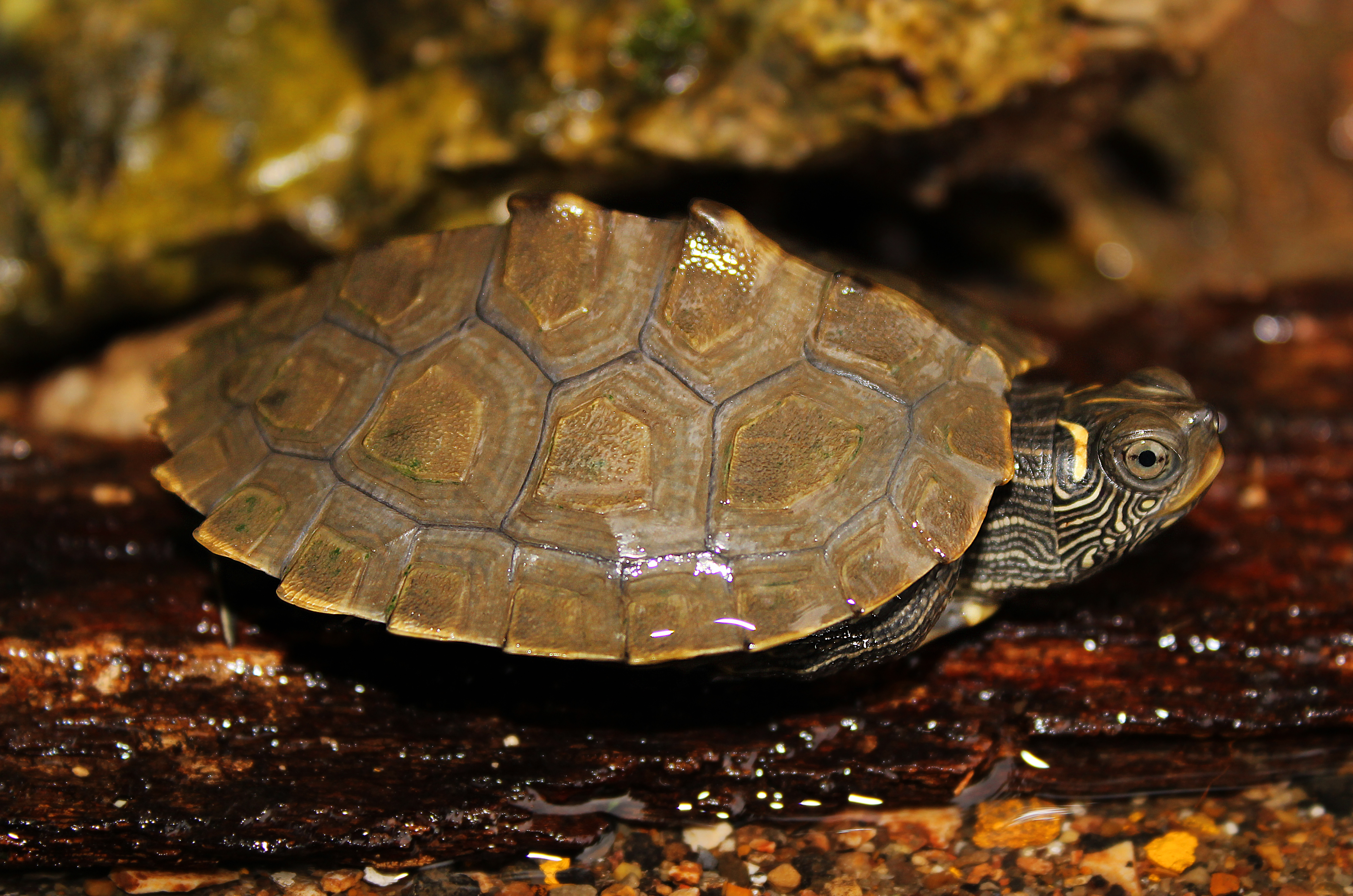 June 27th, 2015 High of 79 degrees Fahrenheit St. Louis County, Missouri